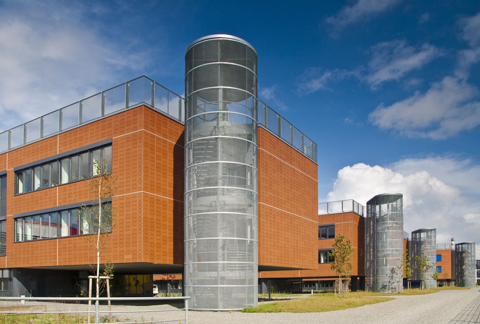 Masaryk University campus in Brno-Bohunice